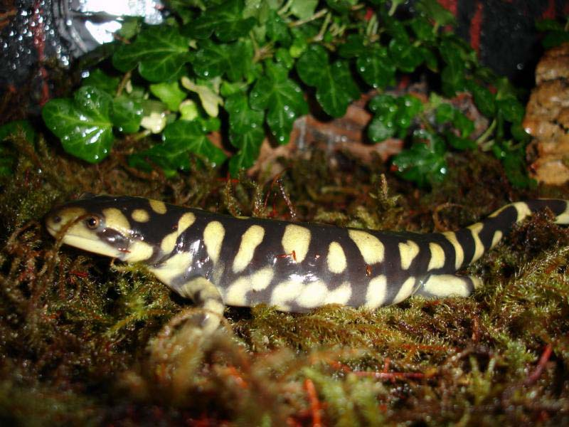 An adult male tiger salamander (Ambystoma tigrinum) in captivity.